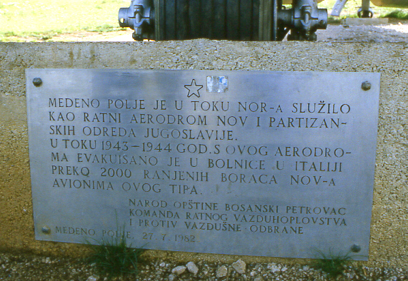 Monument (plaque installed in 1982) explaining the plane context, to be translated